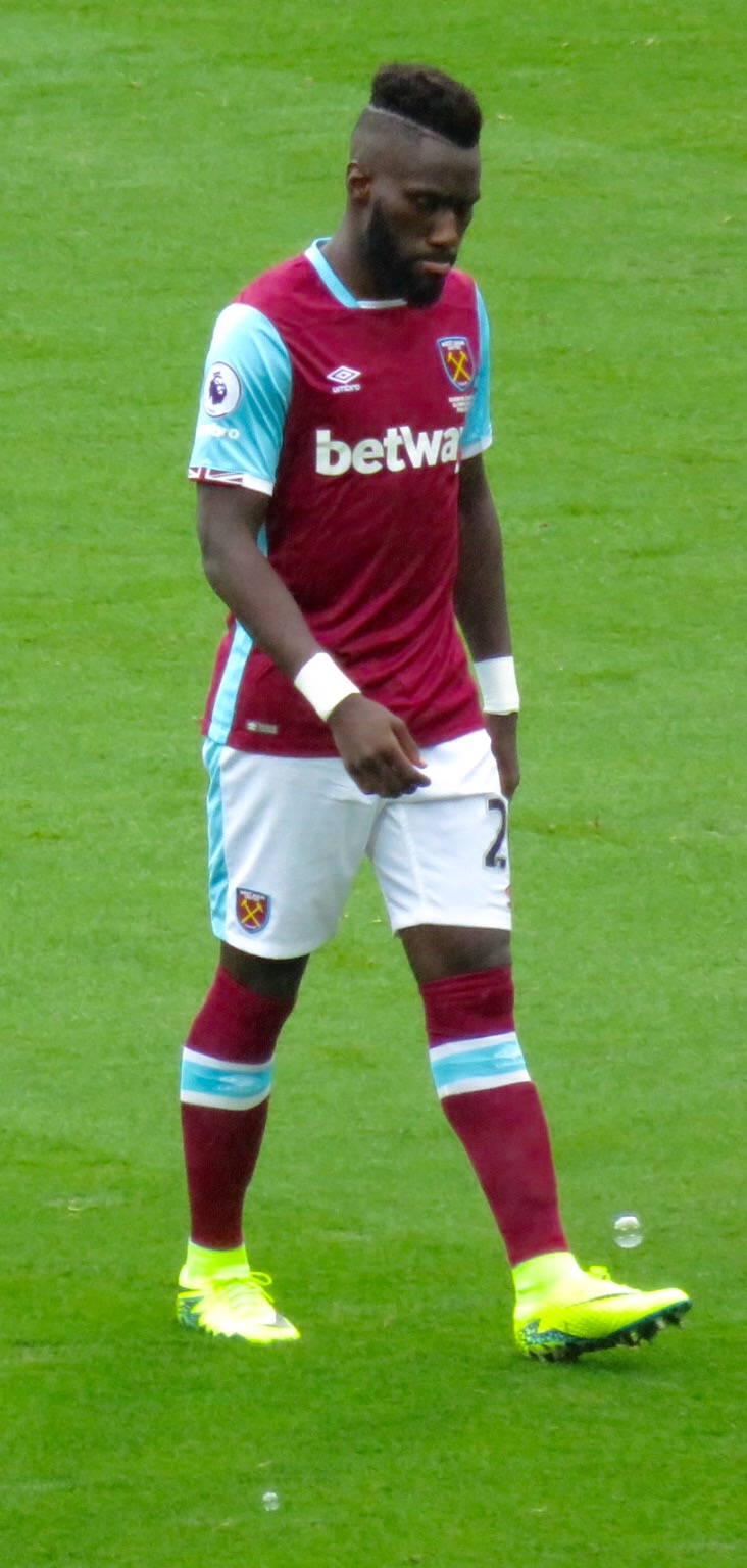 West Ham United player, Arthur Masuaku playing against Watford in the Premier League at the London Stadium.